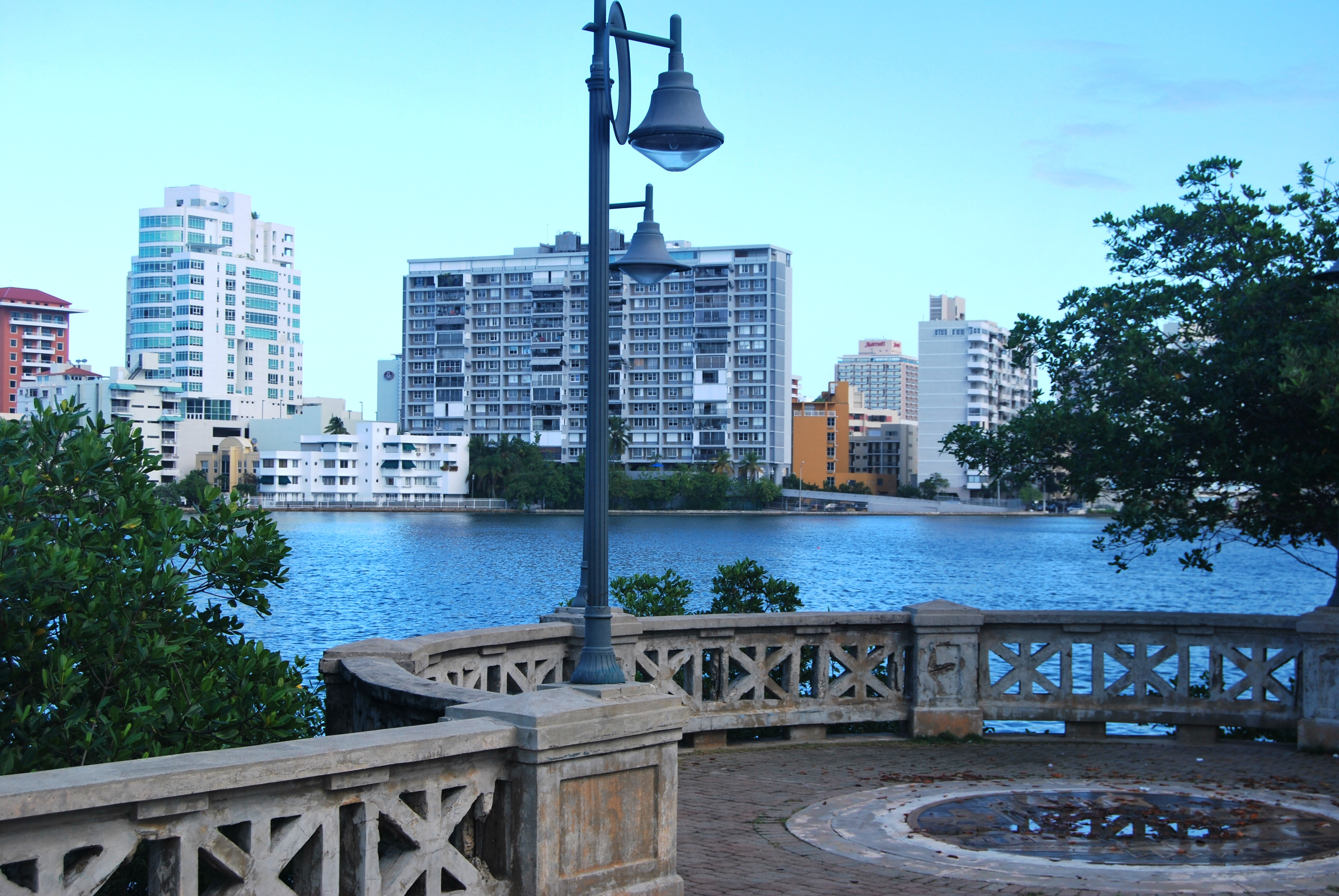 Condado Lagoon in San Juan, Puerto Rico